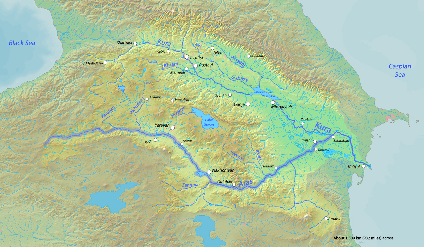 Map of the Aras River highlighted on a map of the Kura River watershed